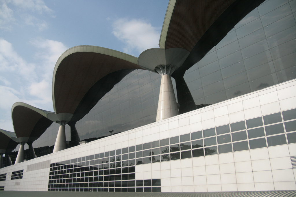 The Main Terminal Building of KLIA, taken by Nikon d80